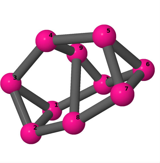 One of 19 simple cubic graphs with 10 vertices.